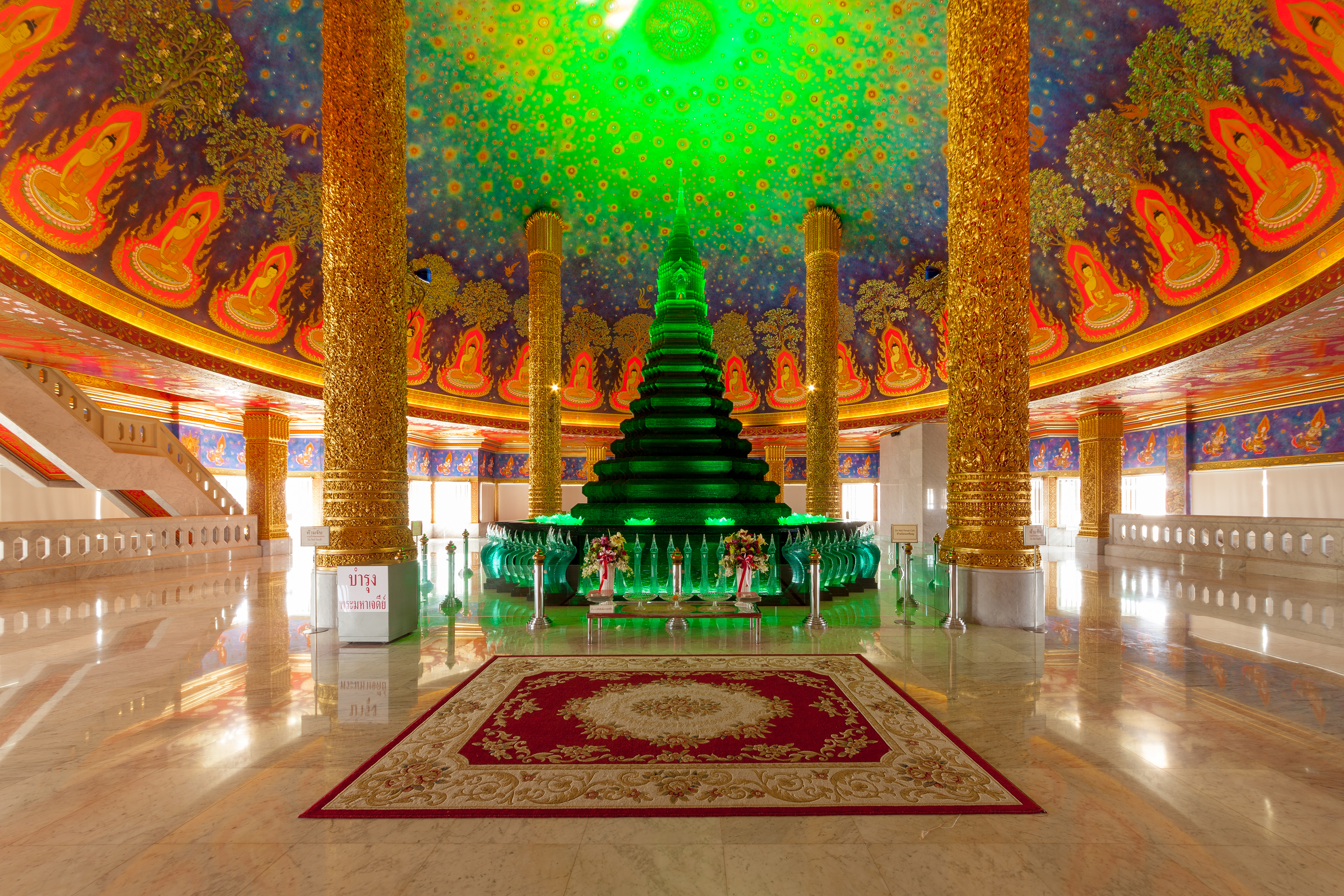 Phrarathchamongkhon Stupa of Wat Pak Nam Phasi Charoen in Chedi Maha Rajamongkol.